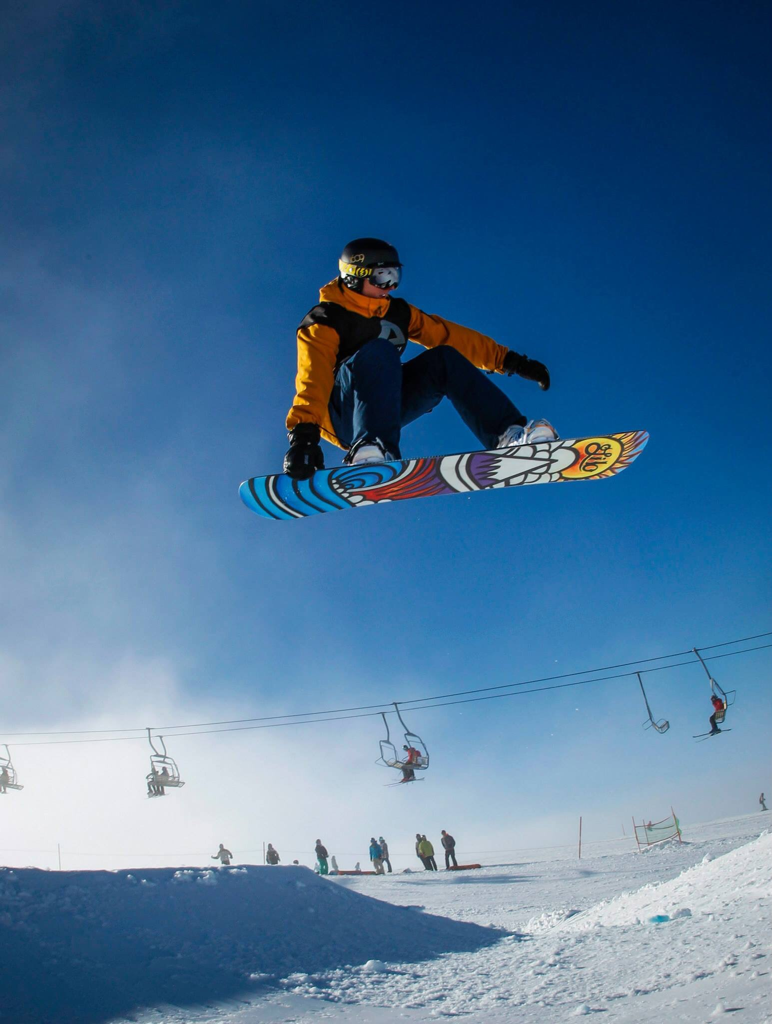 Snowboarder Tindy grab